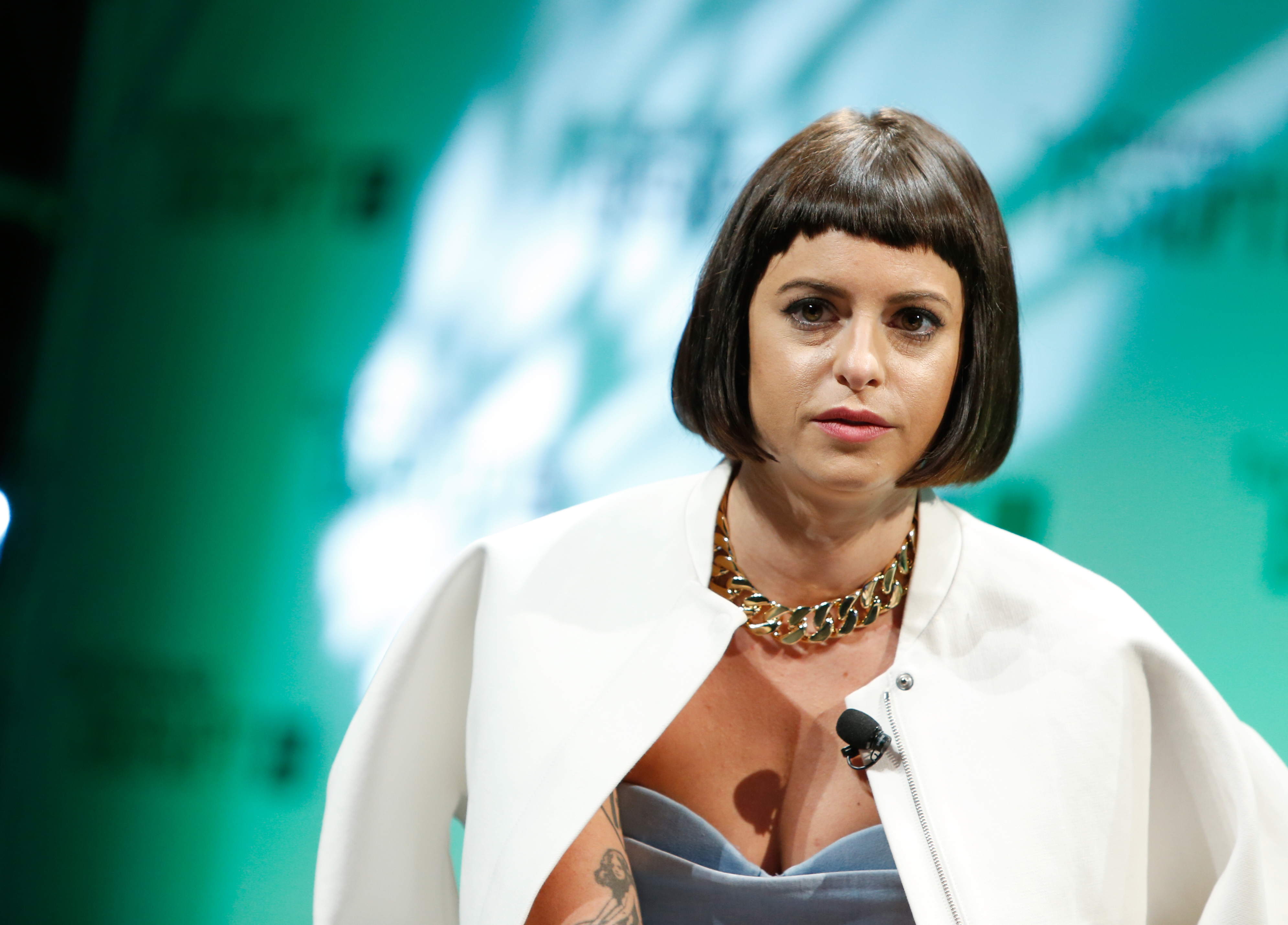 NEW YORK, NY - MAY 07: CEO Nasty Gal, Sophia Amoruso speaks at TechCrunch Disrupt NY 2014 - Day 3 on May 7, 2014 in New York City. (Photo by Brian Ach/Getty Images for TechCrunch)